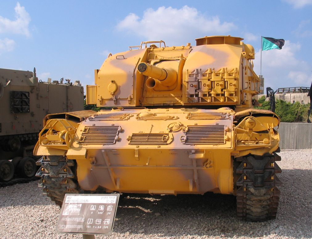 Description: US M52 105 mm self-propelled howitzer in Yad la-Shiryon Museum, Israel. 2005. Source: Photo by me, User:Bukvoed.